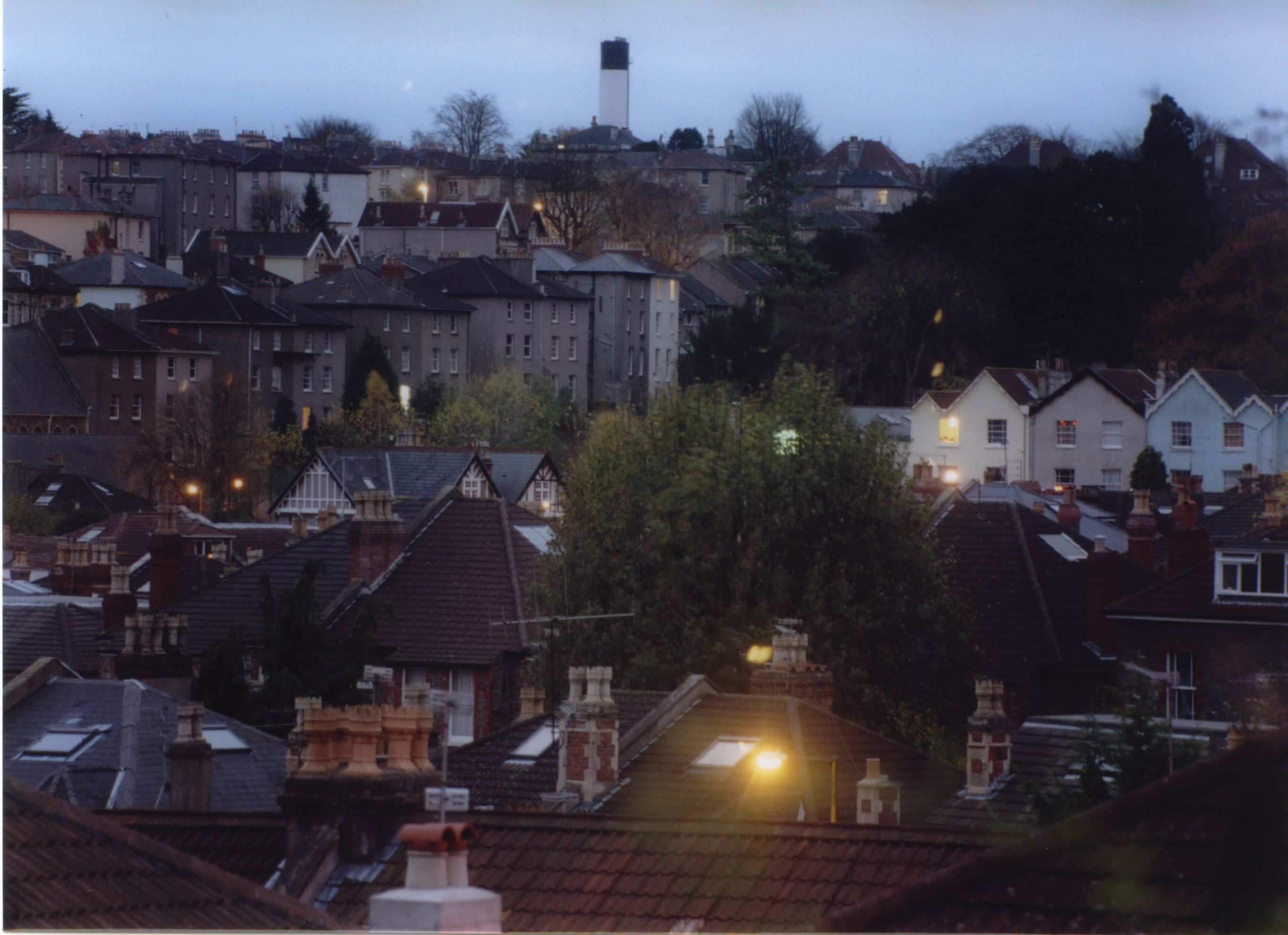 View from Redland to Kingsdown in Bristol, UK at dawn